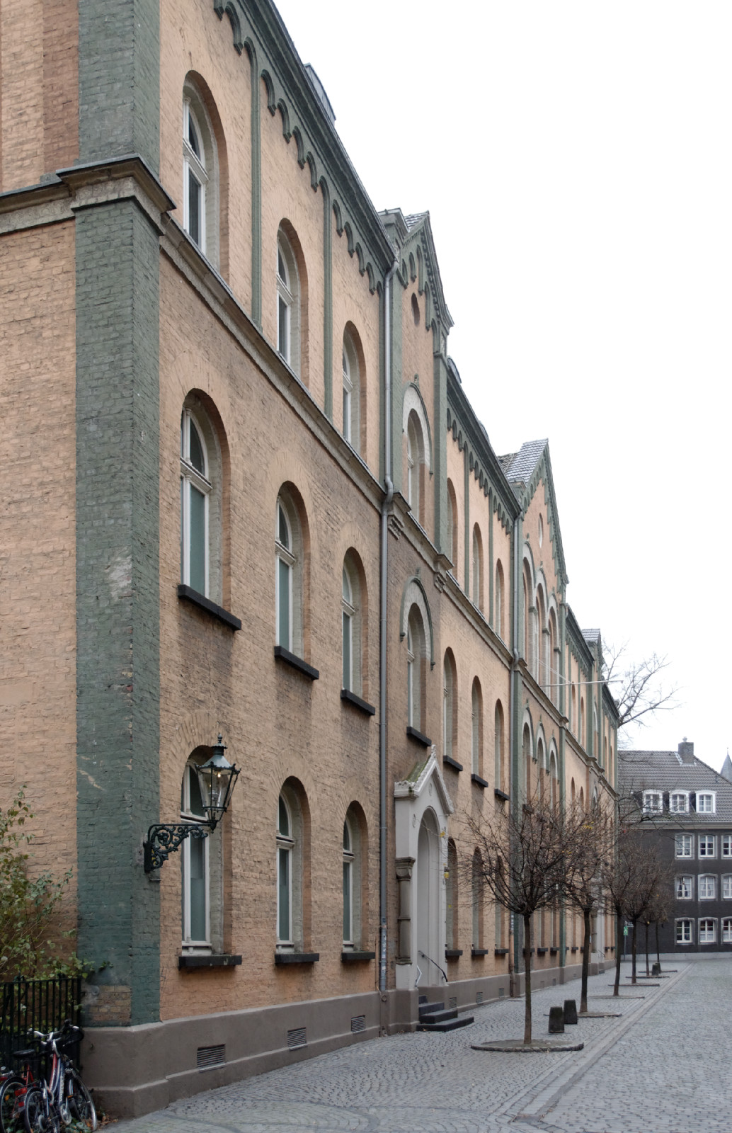 House Lambertusstraße 1 in Düsseldorf-Altstadt, Germany